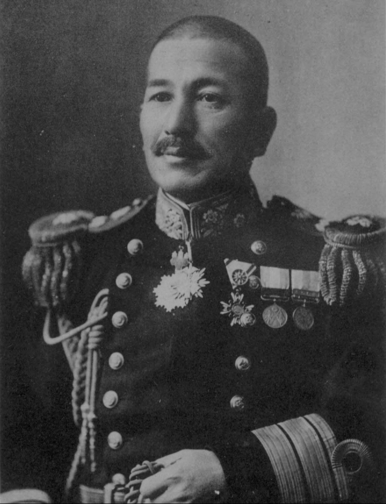 Vice Admiral Akiyama Saneyuki of the Imperial Japanese Navy in 1916